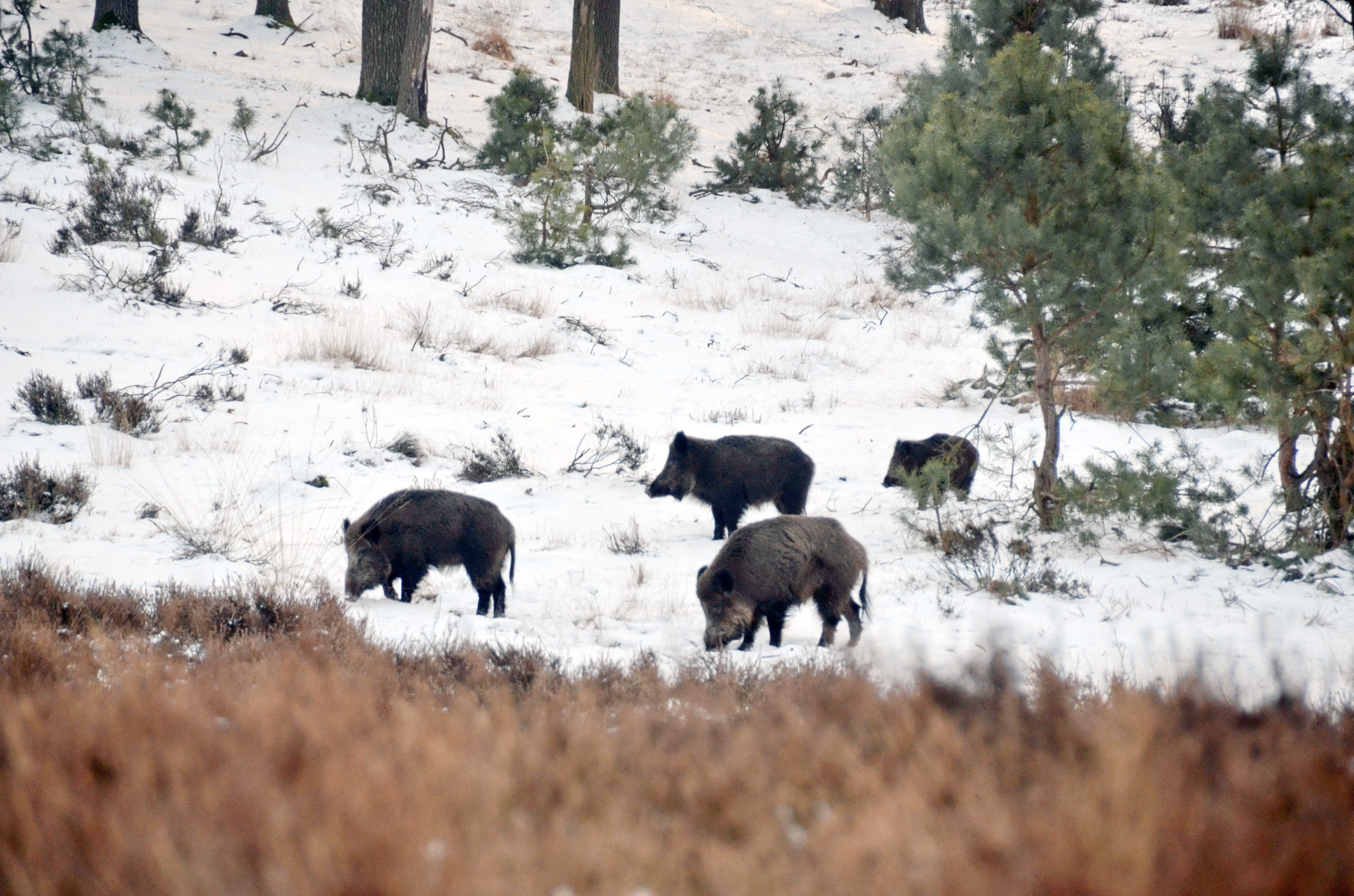 Never seen so quiet searching for food thes wild pigs! Thats the joy of walking in the snow! See next picture for details